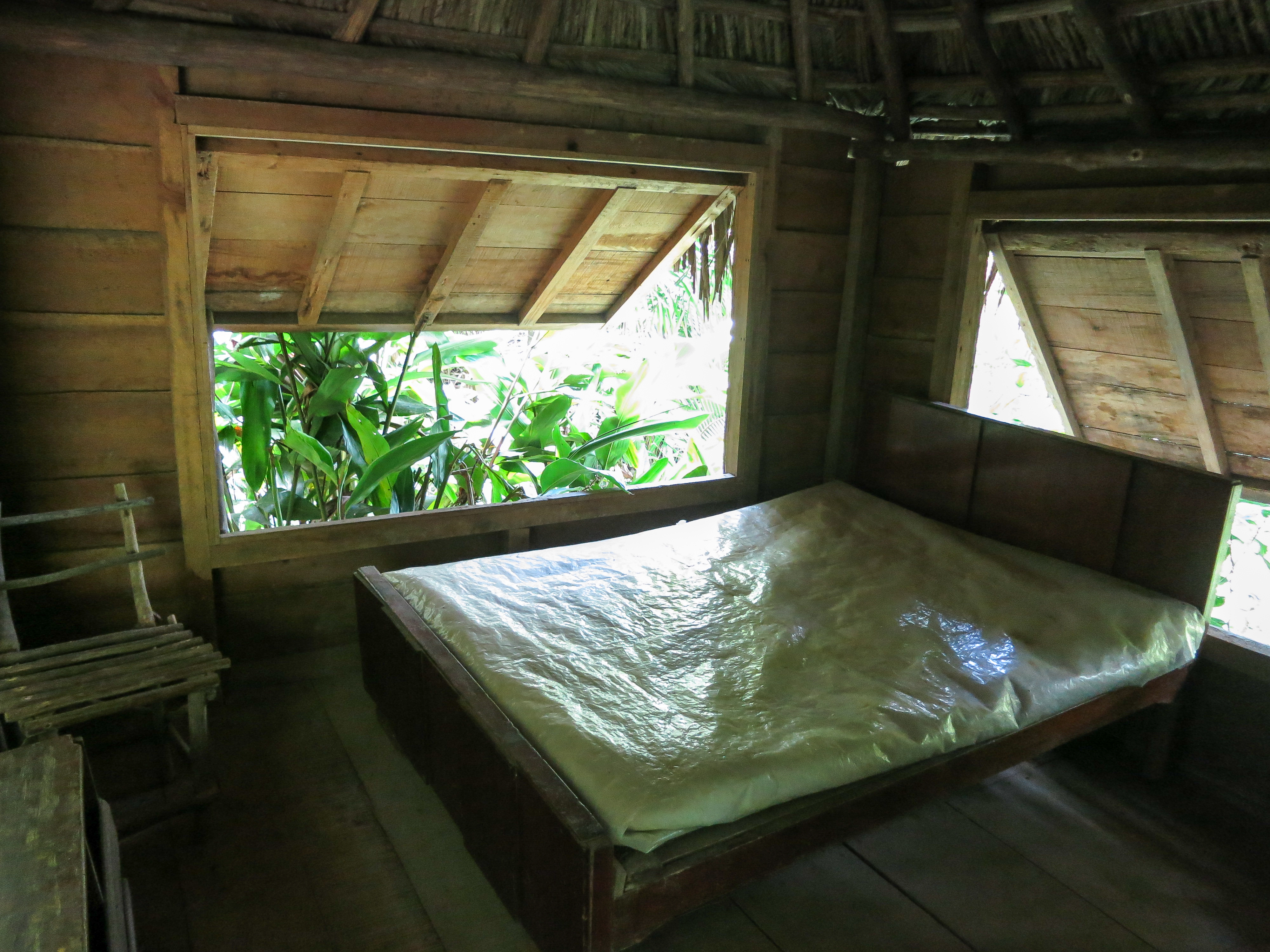 Fidel Castro's bed in the Comandancia General de La Plata.